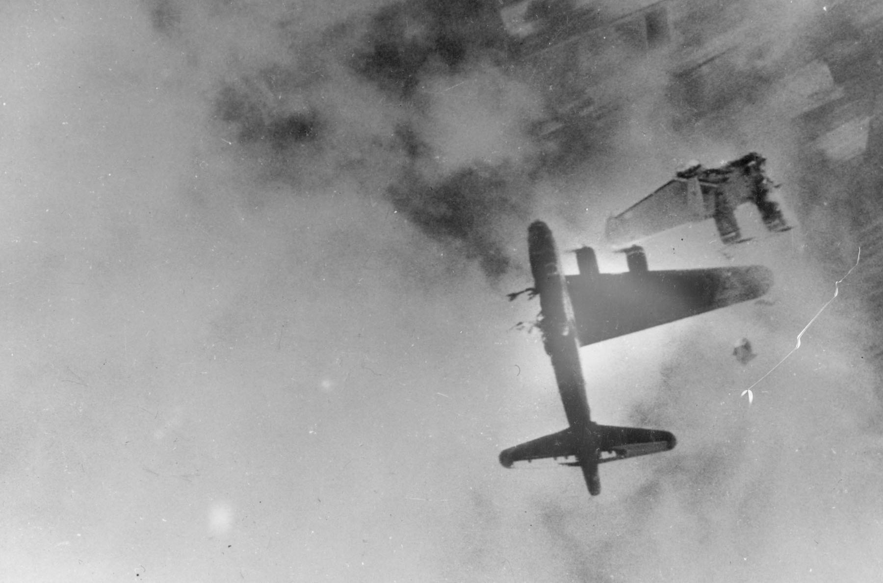 Boeing B-17G Wee-Willie 42-31333 LG-W, 323th squadron of 91st bombing group, over Kranenburg, Germany, after port wing blown off by flak. Only the pilot, Lieutenant Robert E. Fuller, survived. He was witnessed deploying his chute after being blown free of the cockpit. Unfortunately, he was listed KIA, having failed to have been located and seemingly not taken prisoner.